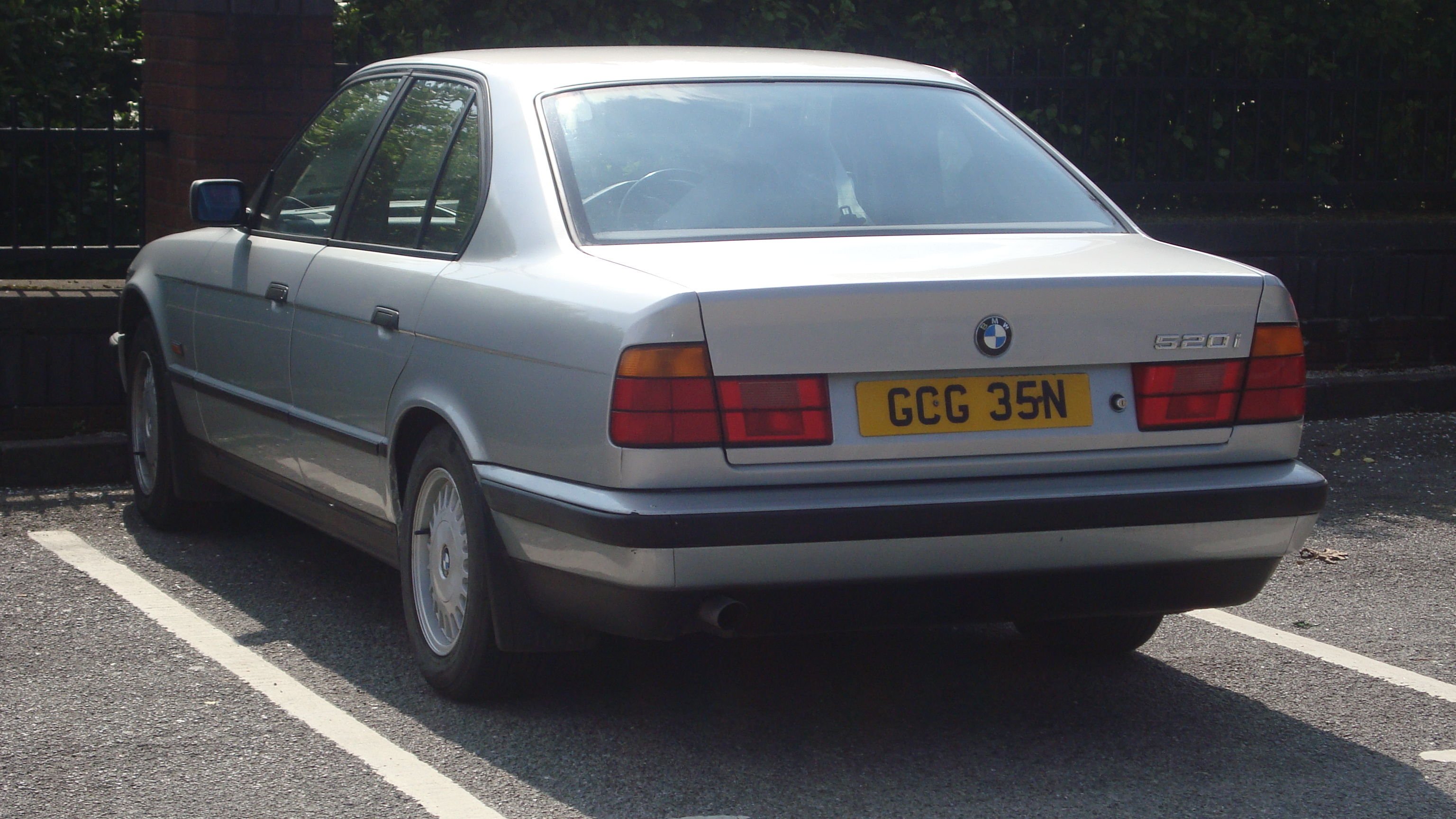 Starting to take notice of these E34's now, there's an E reg one locally that I keep seeing and meaning to photograph, my favourite shape of 5 Series